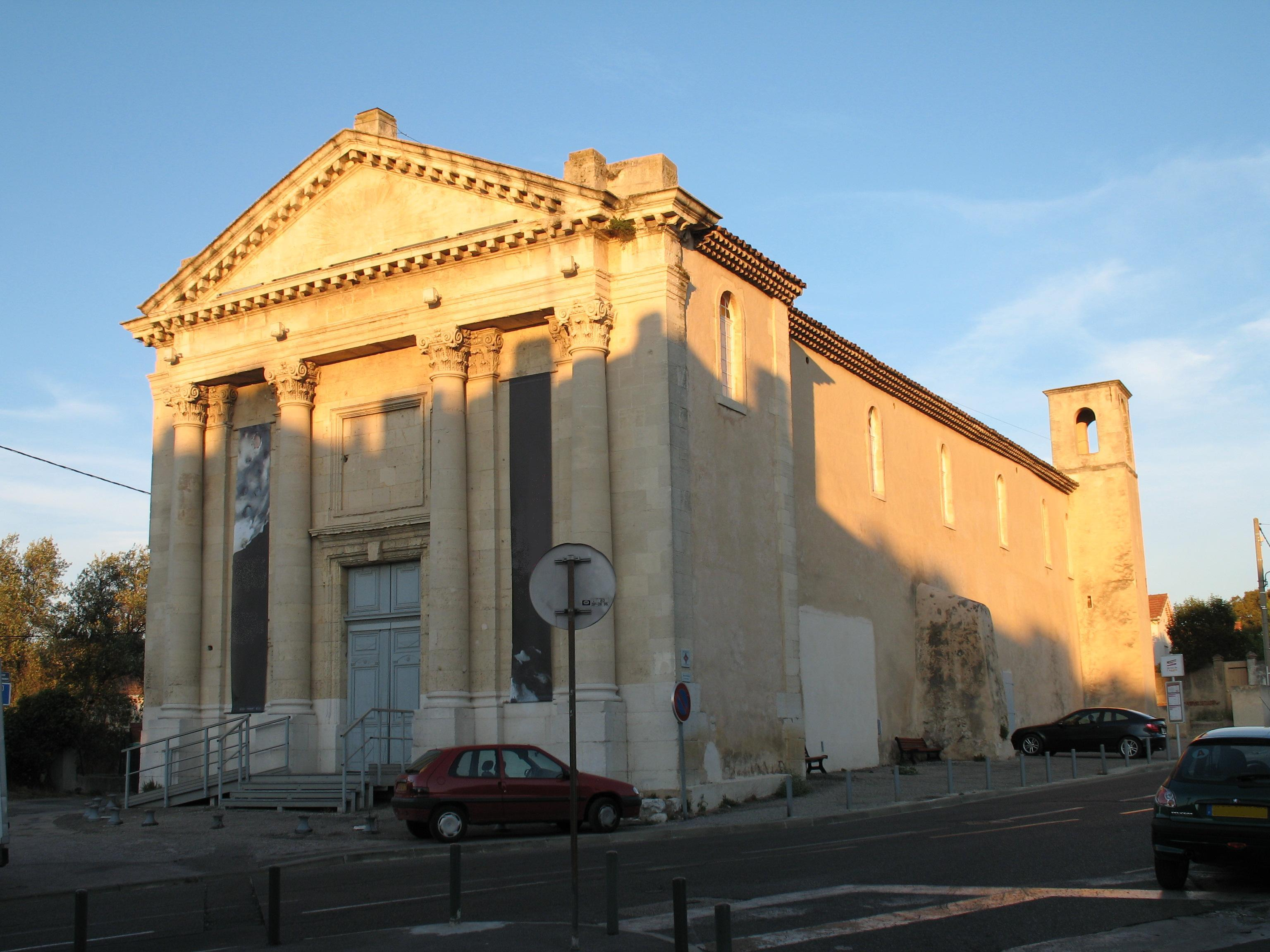 Chapel of Black Penitents (Aubagne, Bouches-du-Rhône, France)